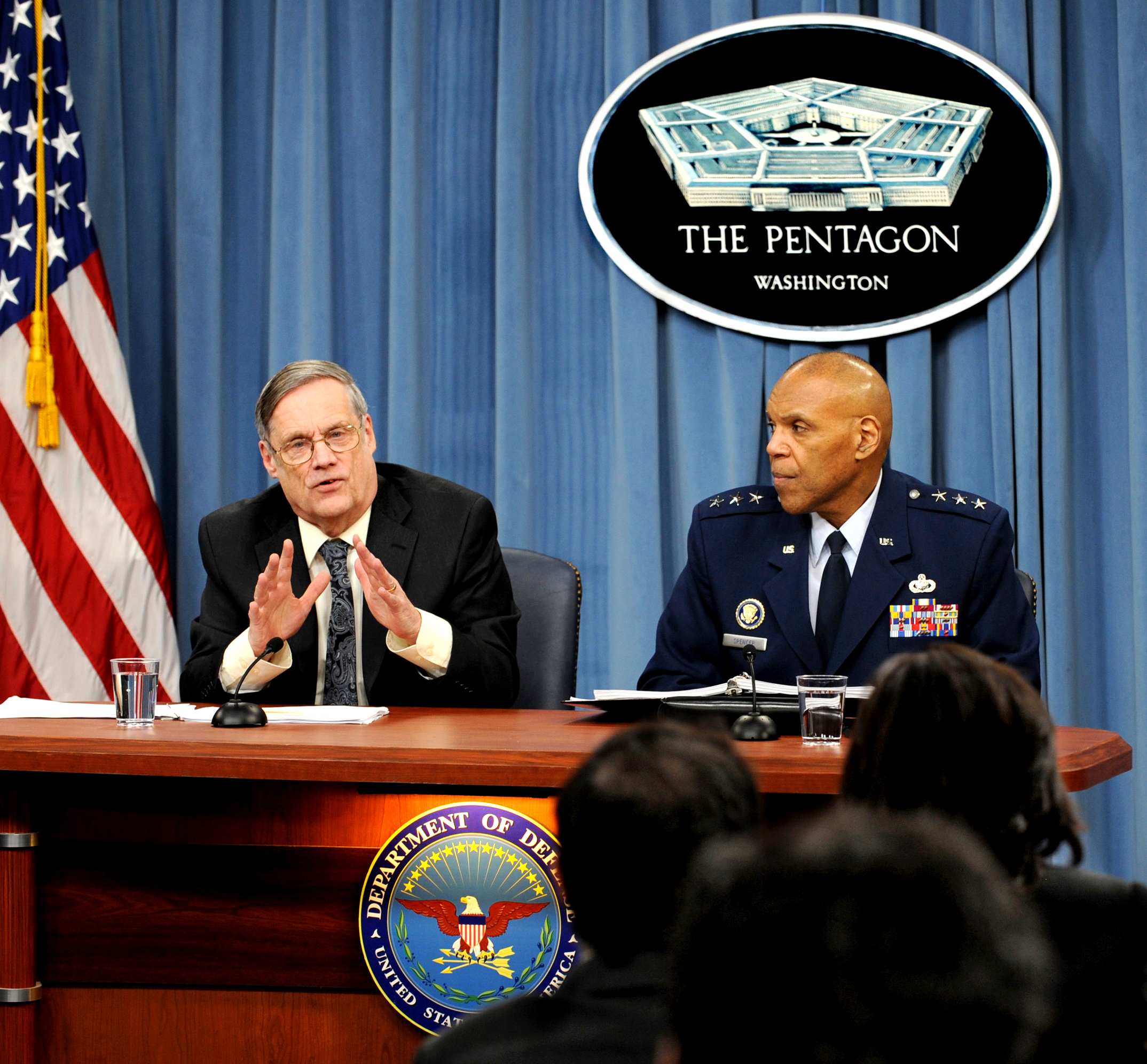 Robert F. Hale, under secretary of defense, comptroller, left, responds to a reporter's question during a Pentagon budget briefing, Feb. 14, 2011. Hale is joined by Air Force Lt. Gen. Larry O. Spencer, the director of force structure, resource and assessment, Joint Staff. Spencer is representing the Chairman of the Joint Chiefs of Staff.